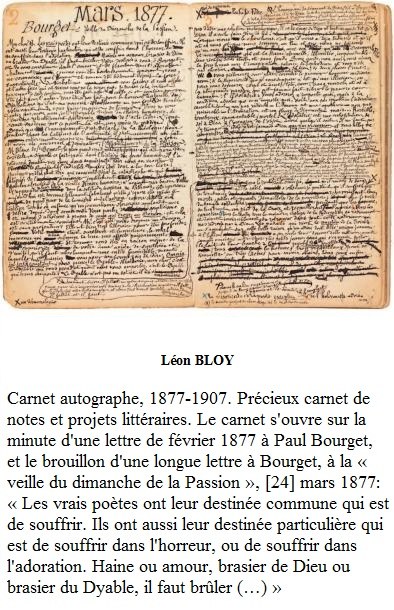 leon bloy 1877